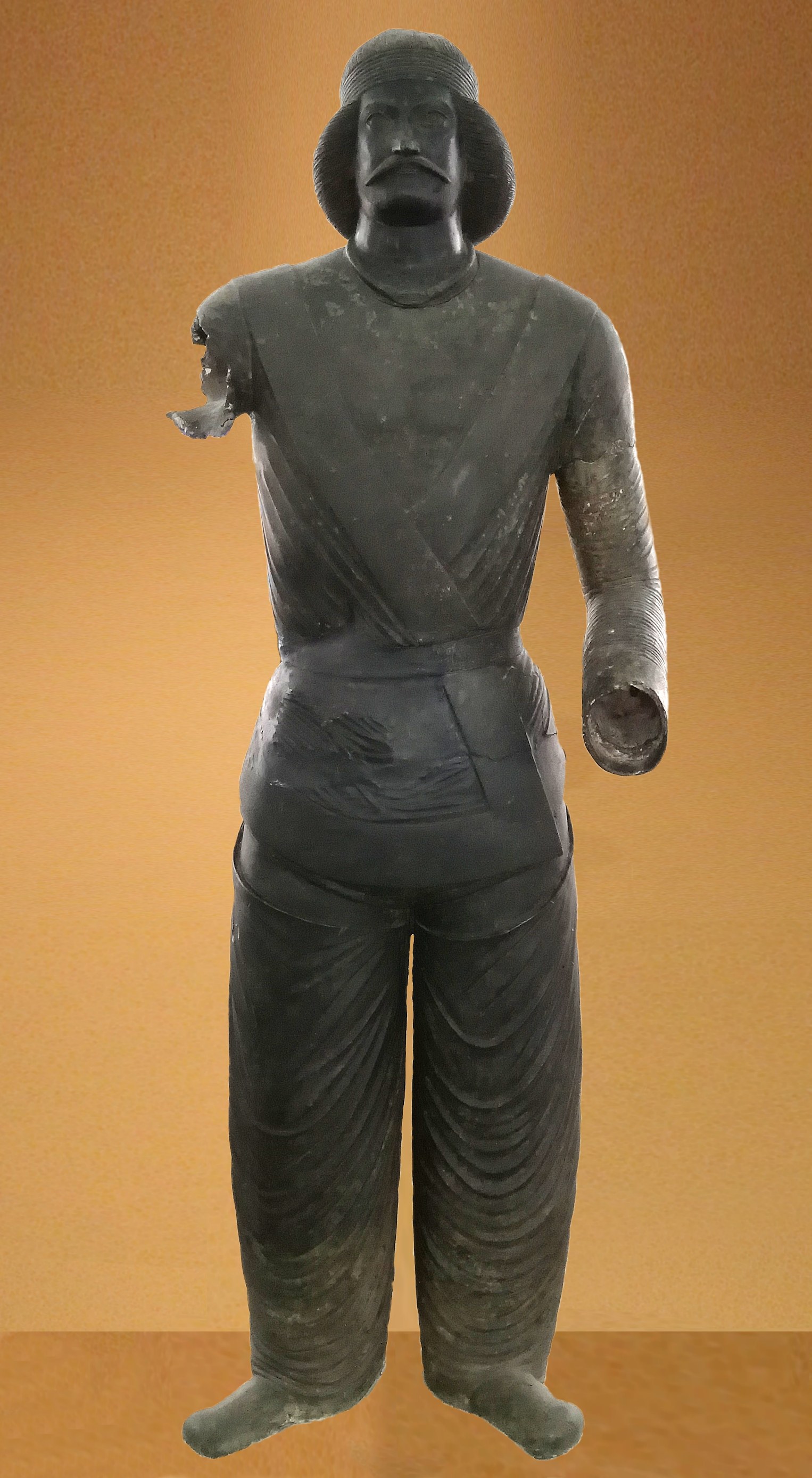 Parthian Iran Museum